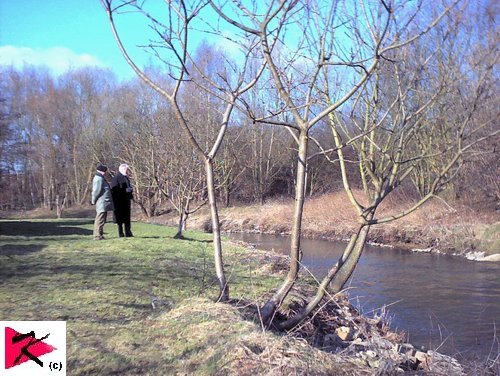 Wurm (German, in